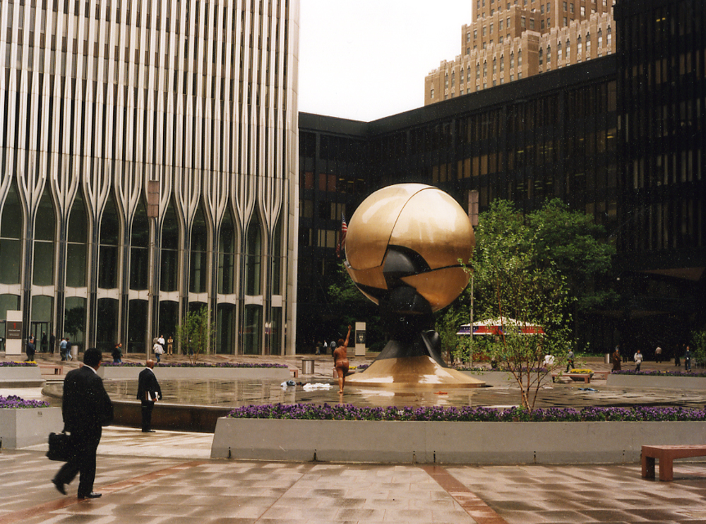 North Tower (1WTC) and 6 World Trade Center as seen from the WTC Plaza. From the original description: "…a woman climbed onto the sculpture in the centre, stripped and started shouting at the top of her voice."